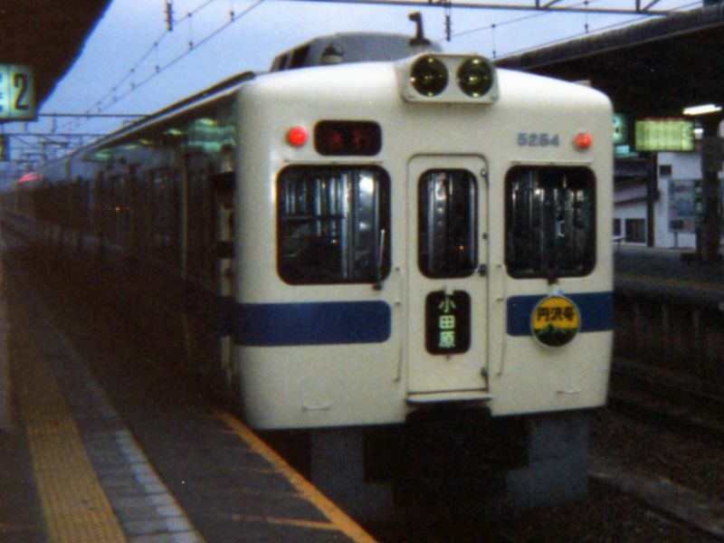 Odakyu Electric Railway Company, EMU Type 5000(Formation on 5254) at Shinmatsuda Sta.